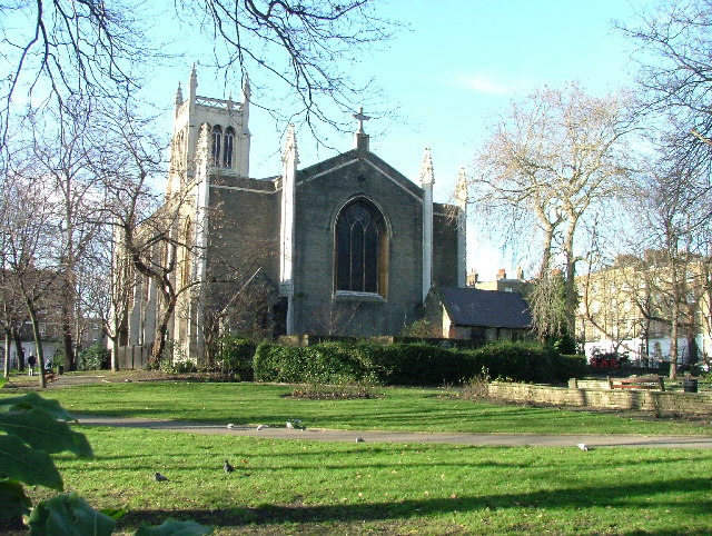 St Mark's Church, Myddleton Square. Whilst taking this photo I was mugged by squirrels who wanted food. they move too fast for a digital camera to take photos of the cute poses.